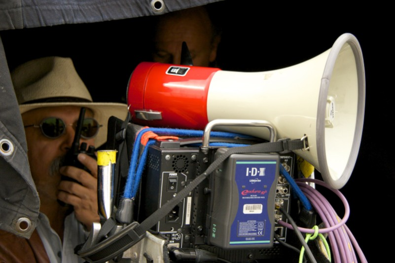 Luis Kelly Dirigiendo